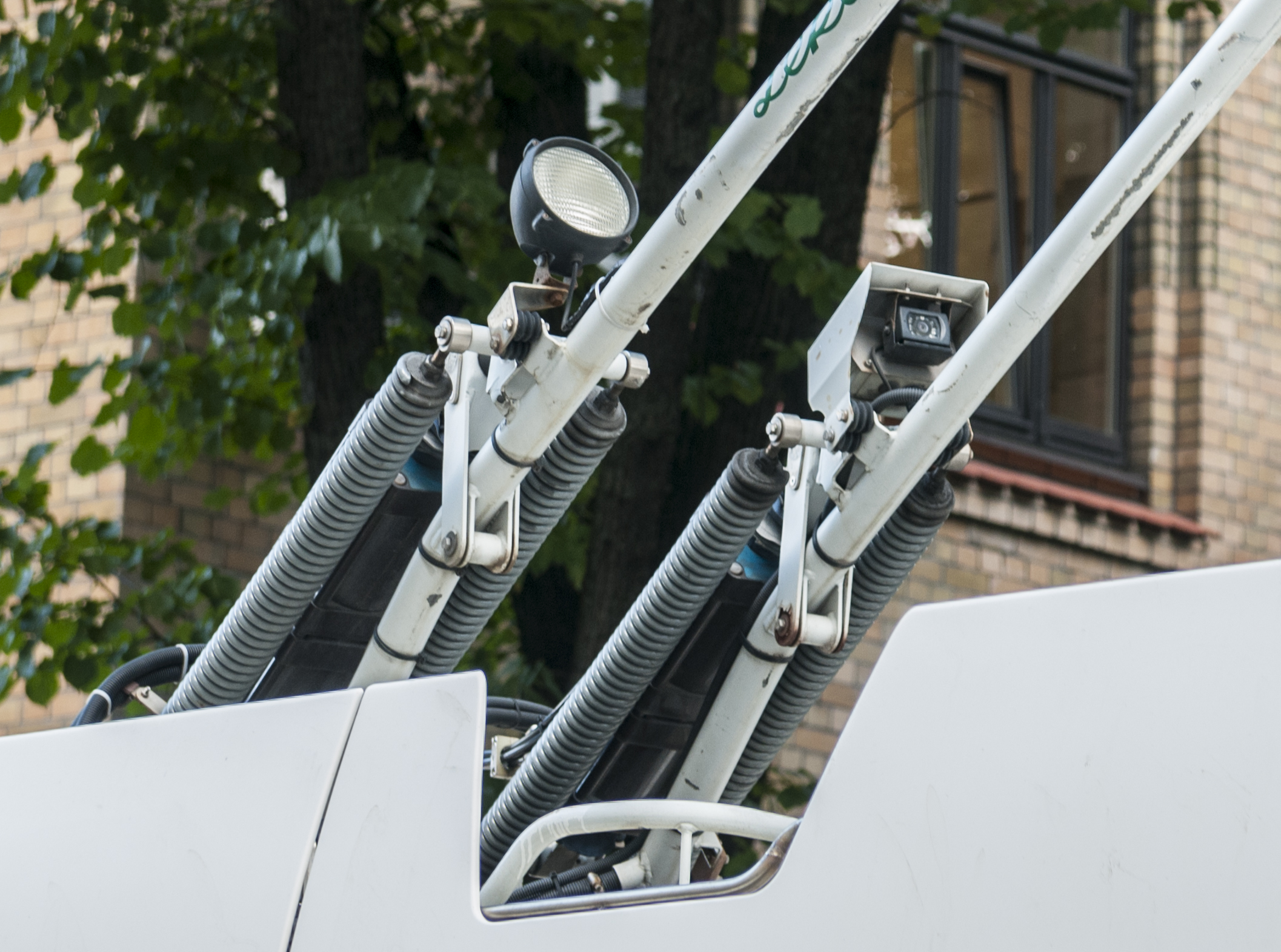 Škoda 24Tr Irisbus in Riga, Latvia